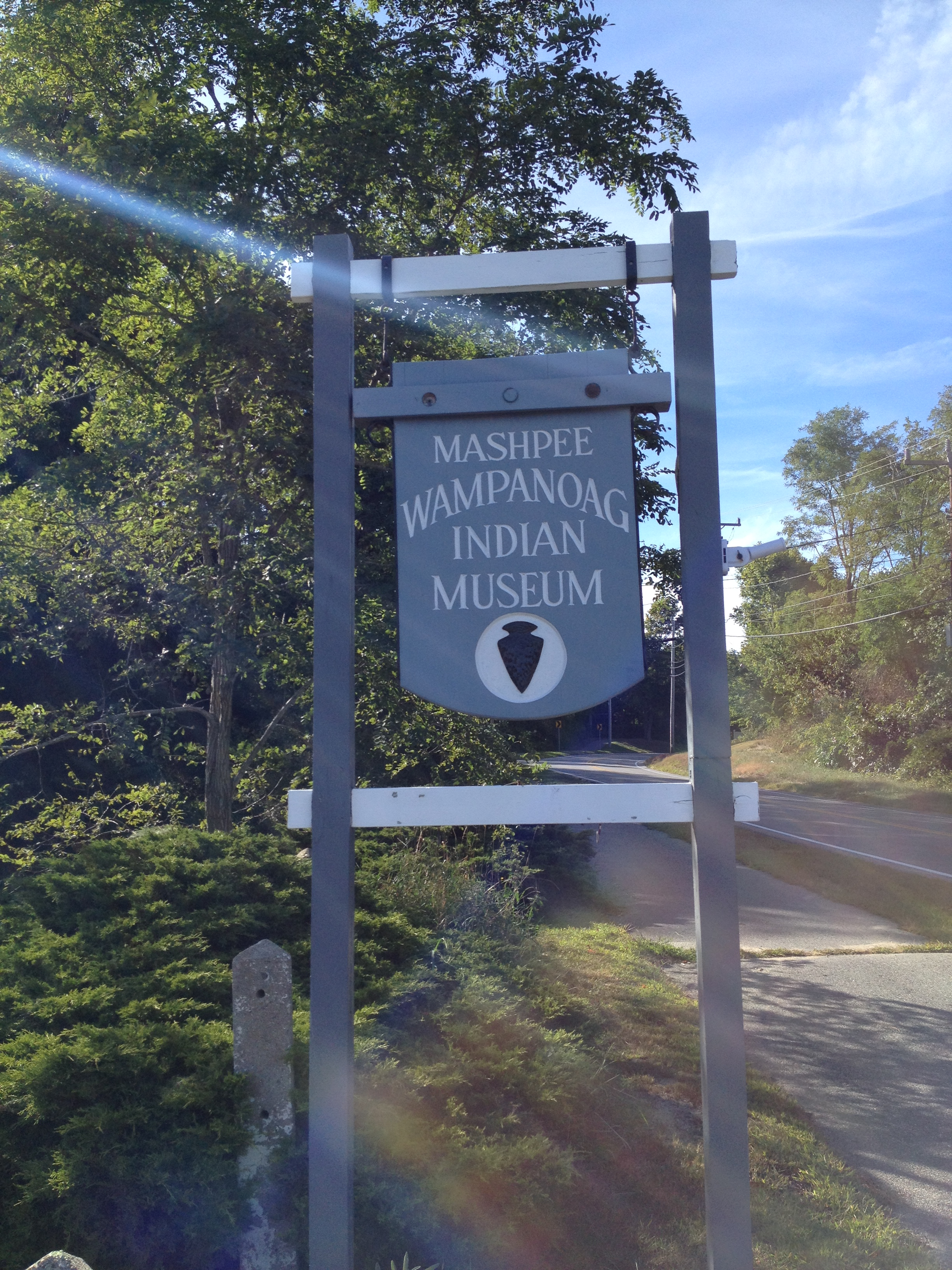 The Msphee Wampanoag Indian Museum is home to the Avant House (Mashpee, Massachusetts)